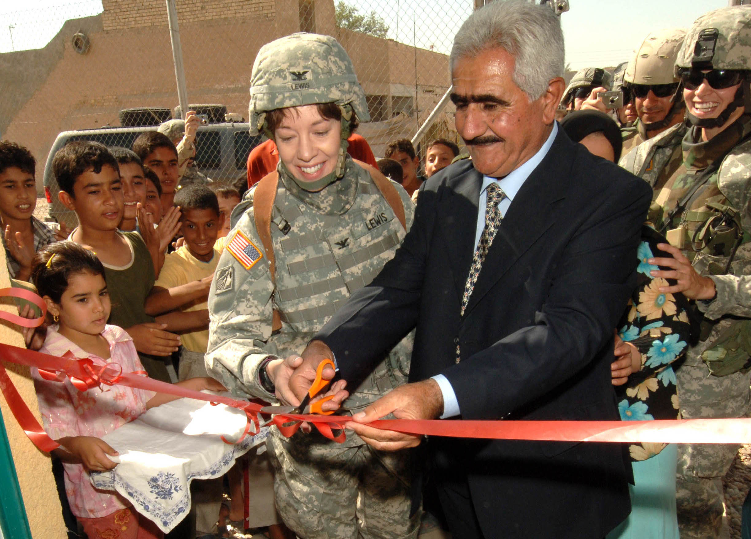 Col. Debra Lewis, a district commander with the Army Corps of Engineers and Sheik O'rhaman Hama Raheem, an Iraqi councilman, celebrate the opening of a new women's center in Assyria that the Corps helped construct. The center provides women with vocational training. This photo appeared on